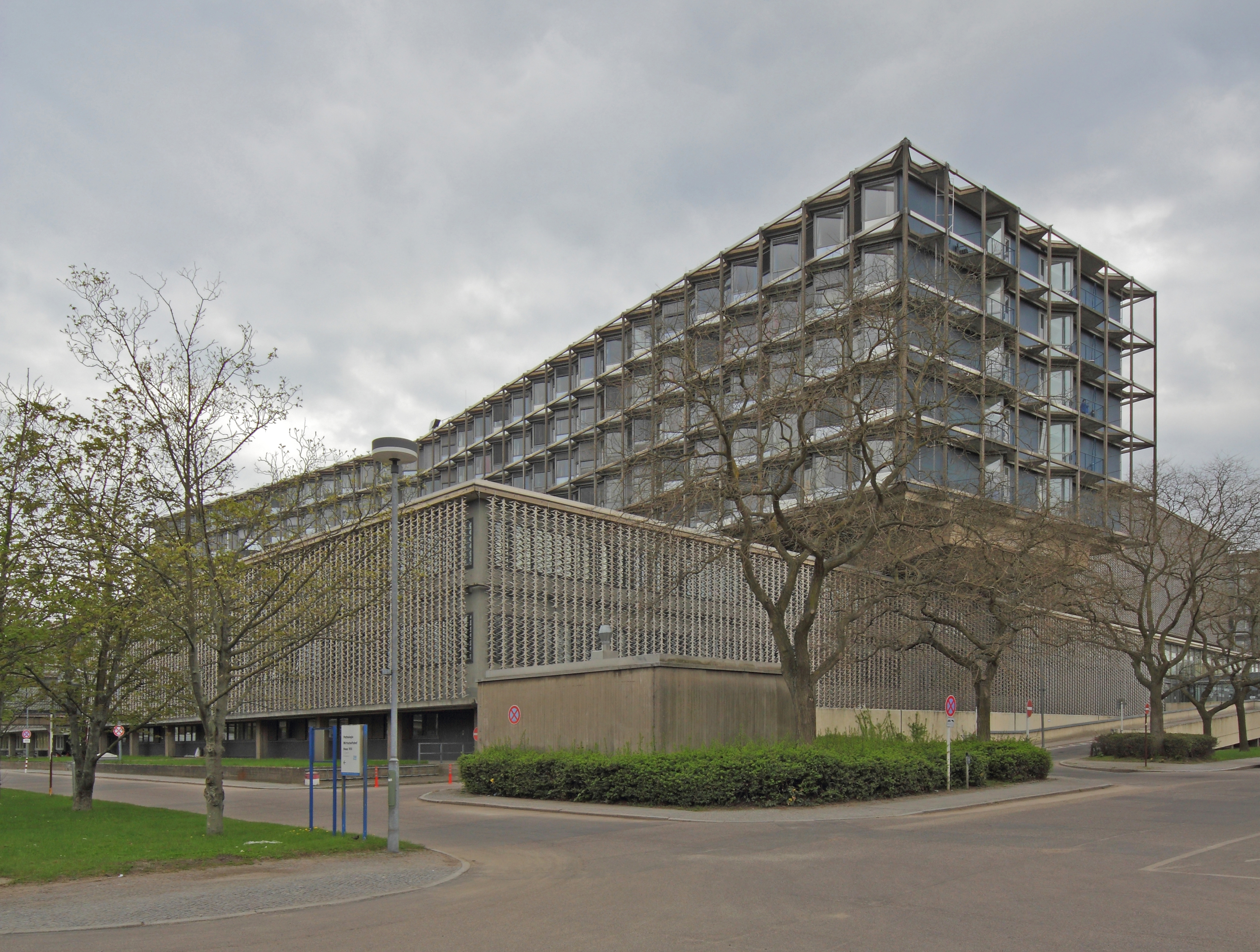 Charité Hospital, Berlin-Lichterfelde, Germany.